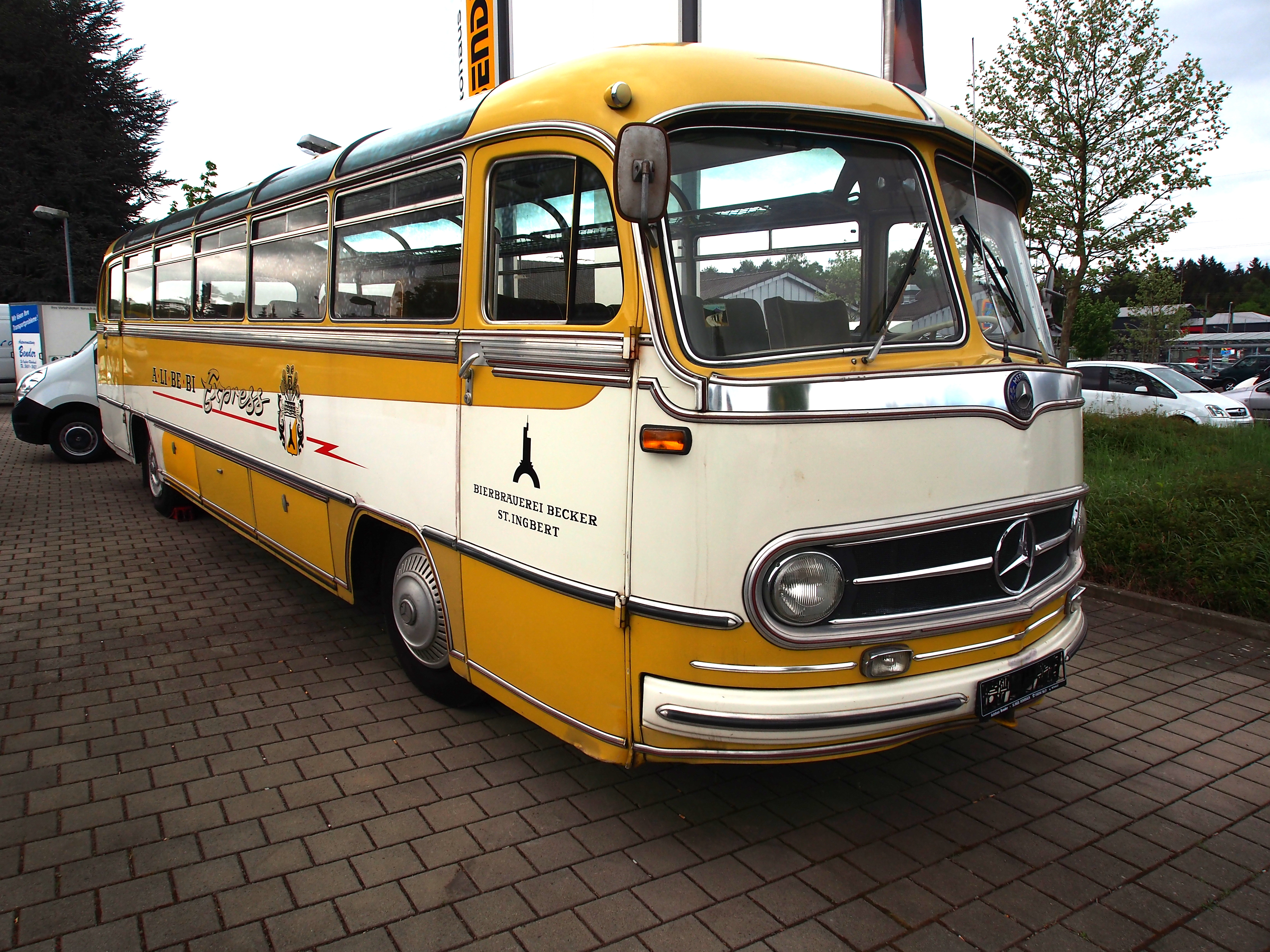 Mercedes-Benz O 321 photographed in Germany.